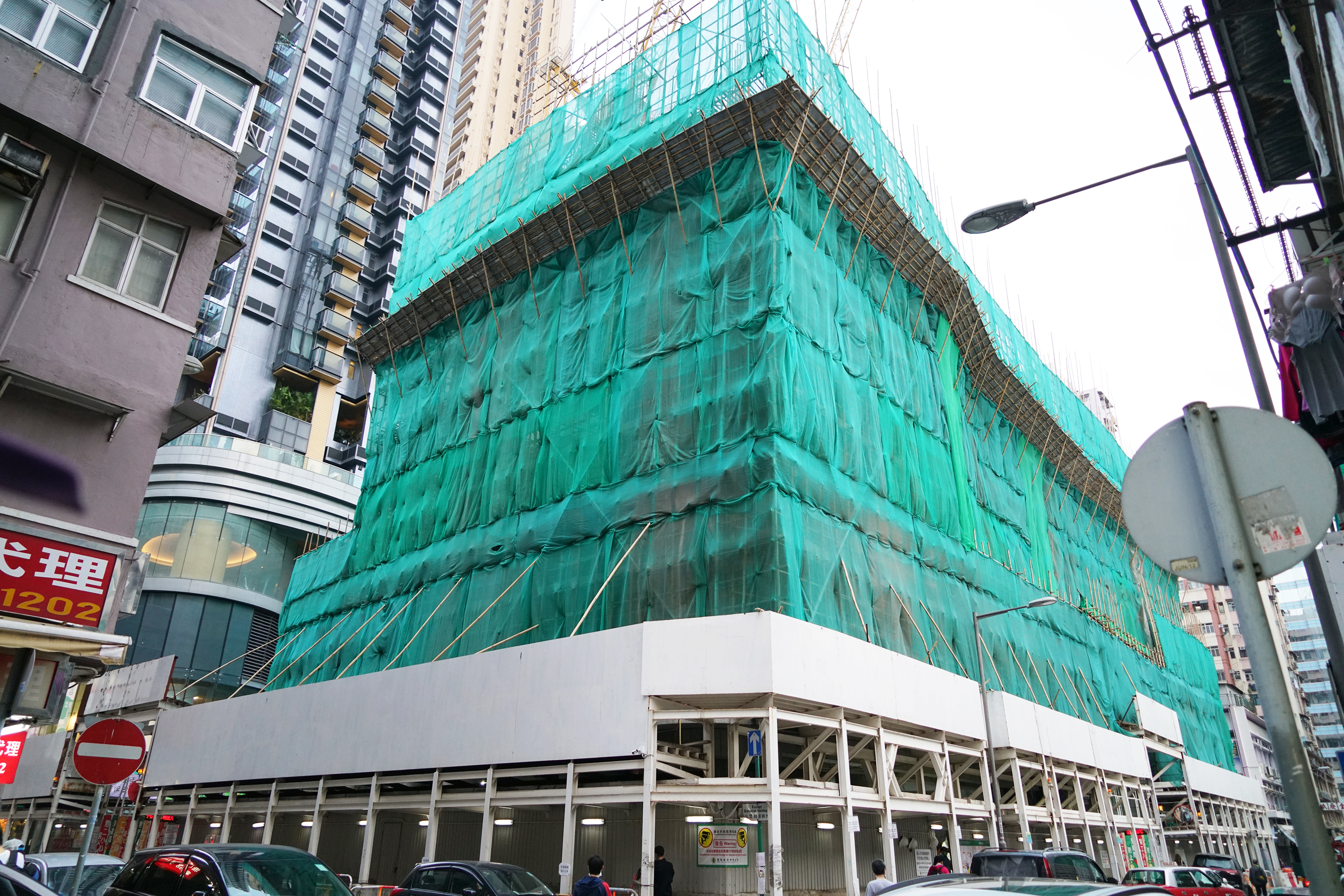 Aquila · Square Mile, Hong Kong.